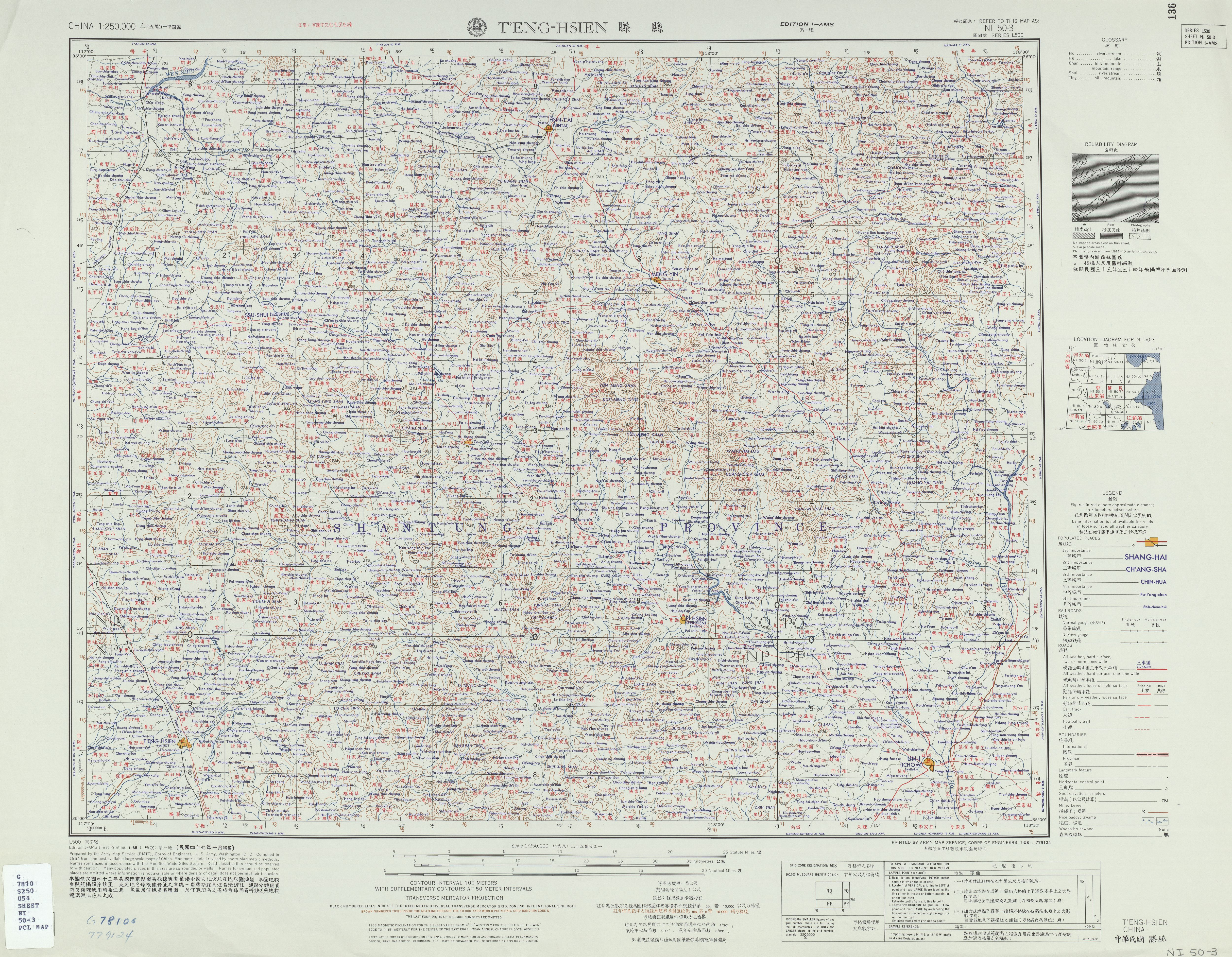 China AMS Topographic Maps